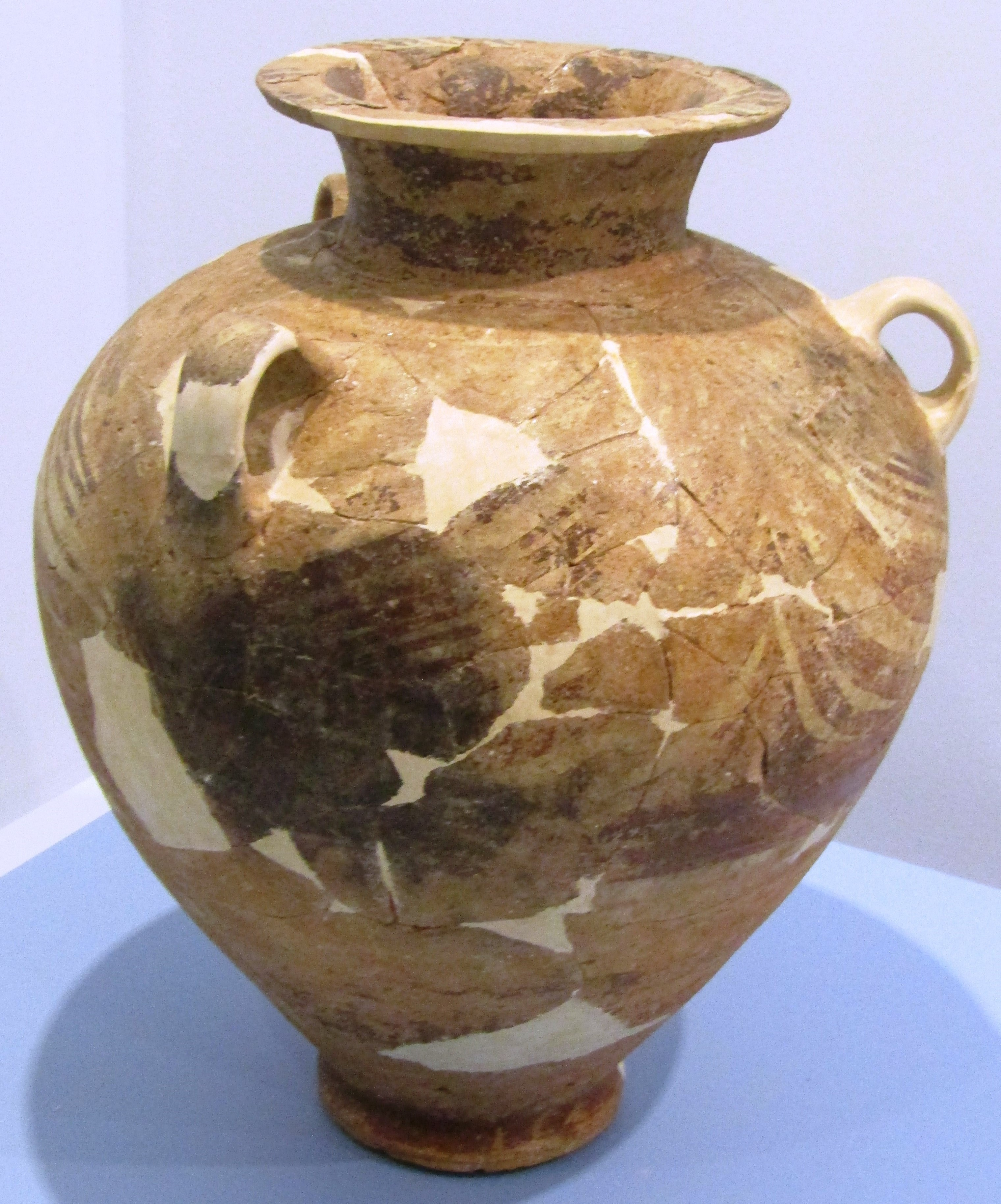 Minoan amphora from Miletus